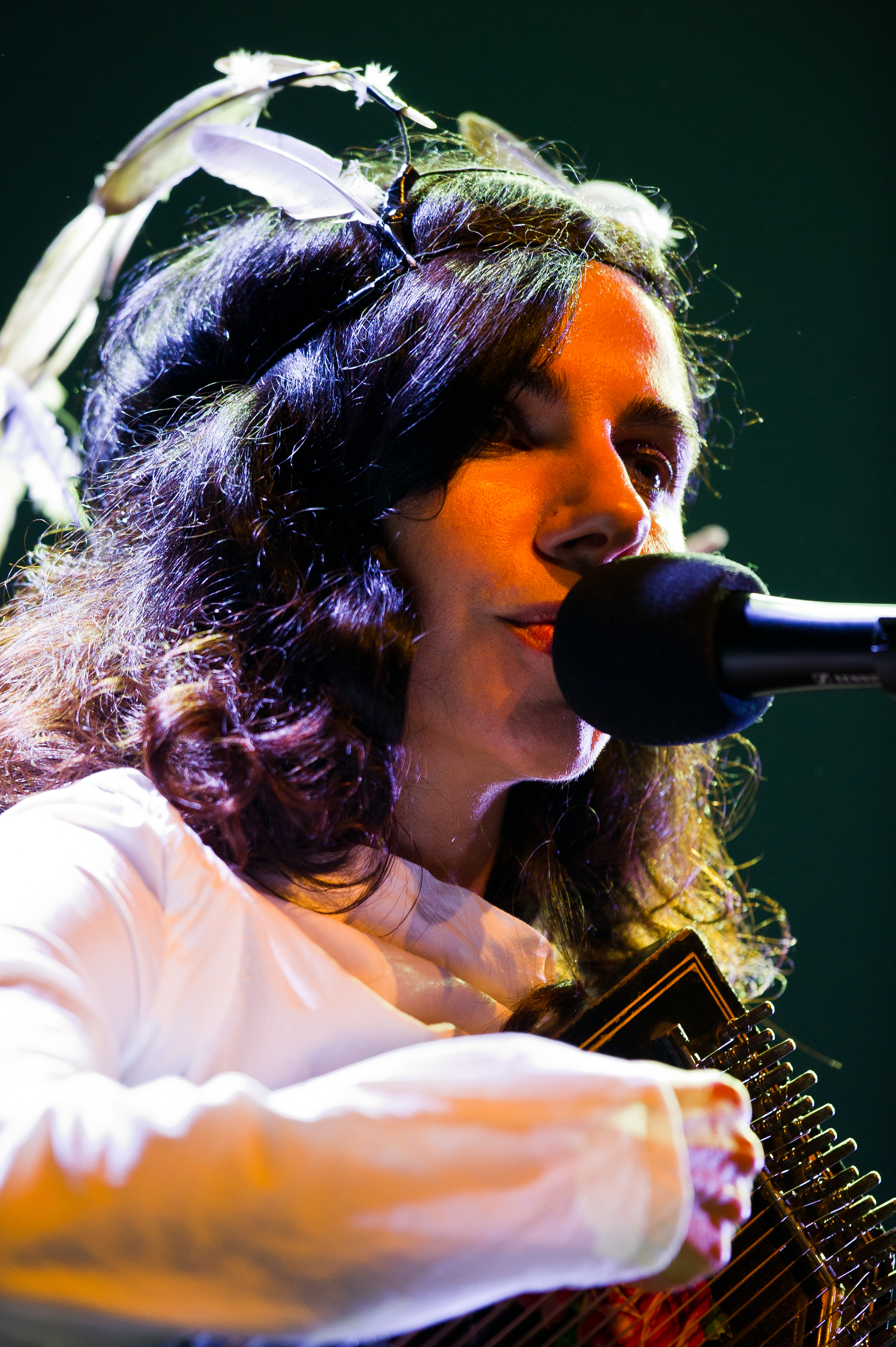 PJ Harvey performing at Roskilde Festival 2011 - Arena Stage. Taken on the 30th of June 2011.